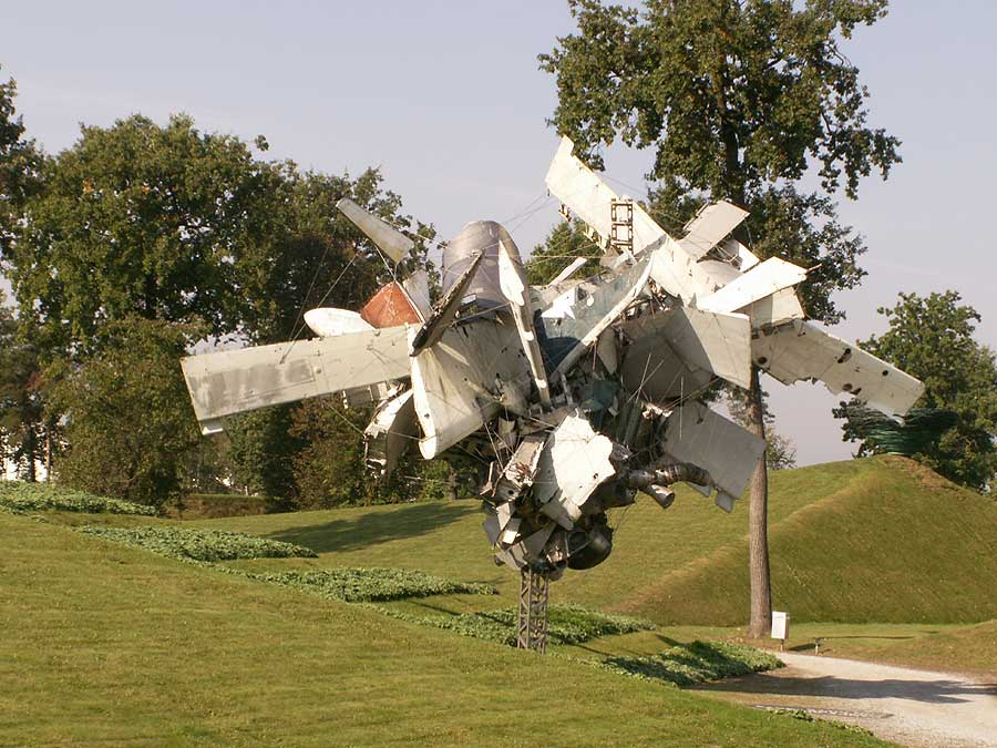 Österreichischer Skulpturenpark, Nancy Rubins, Airplane Parts and Hills, 2003